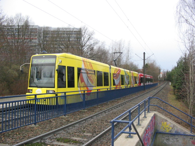 two coupled tramways in Schwerin at stop “Zoo”